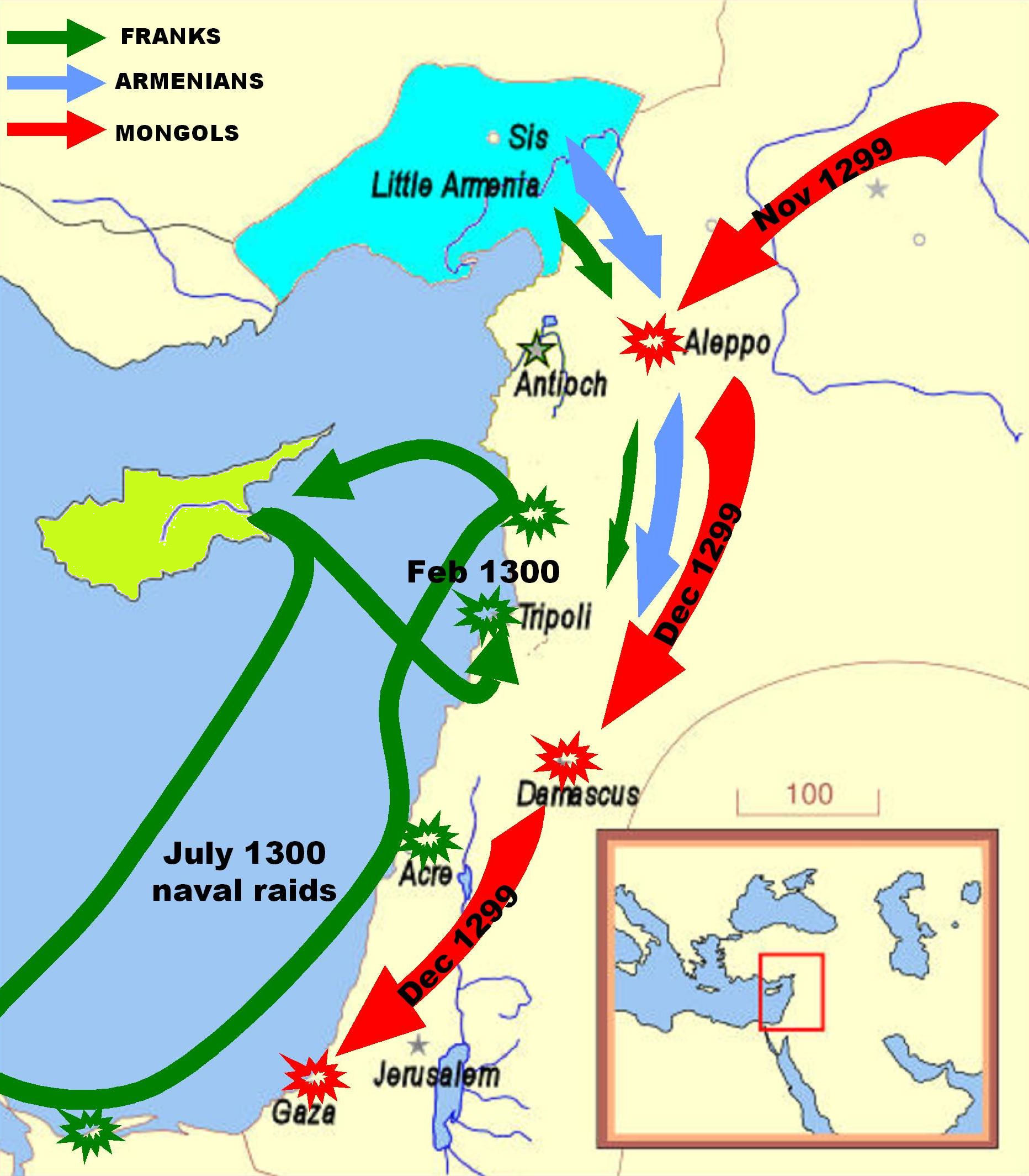 1300 Franco-Mongol Offensive in the Levant